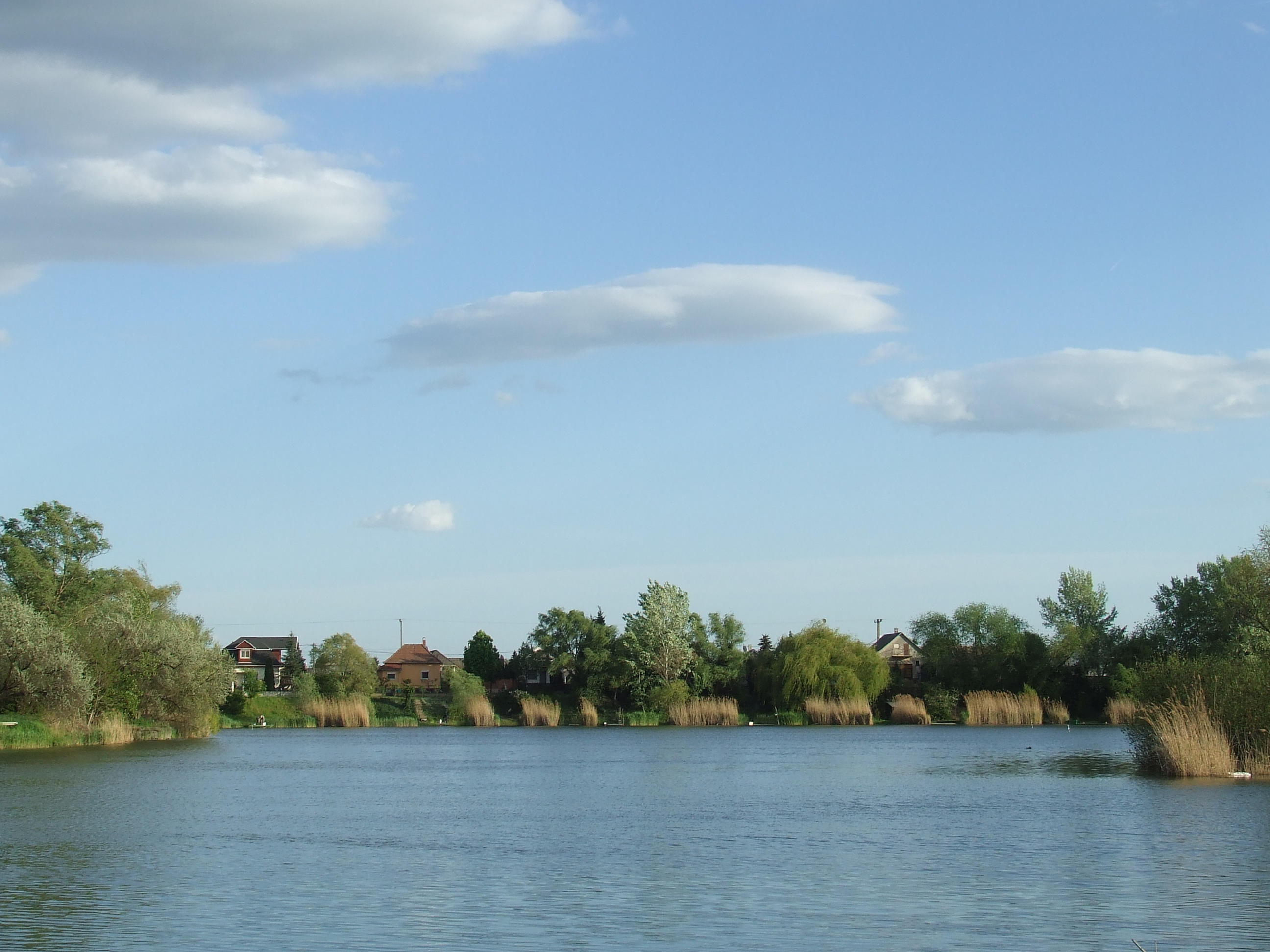 Délegyháza